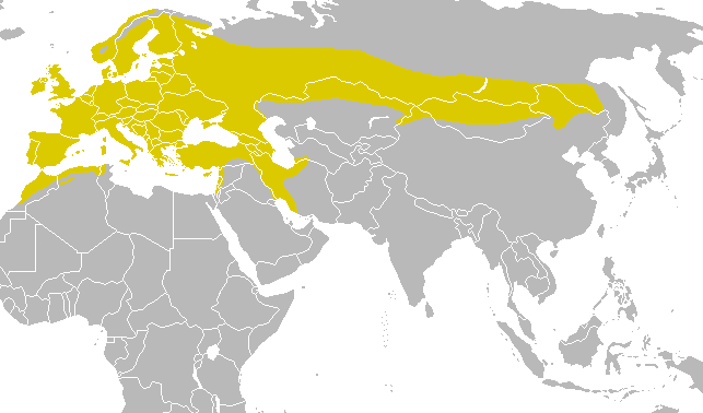 Great Tit (Parus major) distribution map